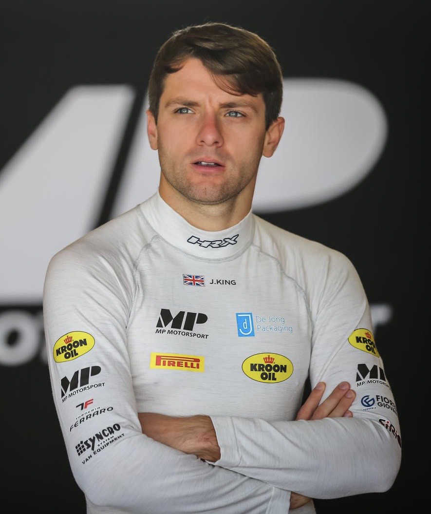 British racing driver Jordan King of MP Motorsport, competing in FIA Formula 2 in 2019